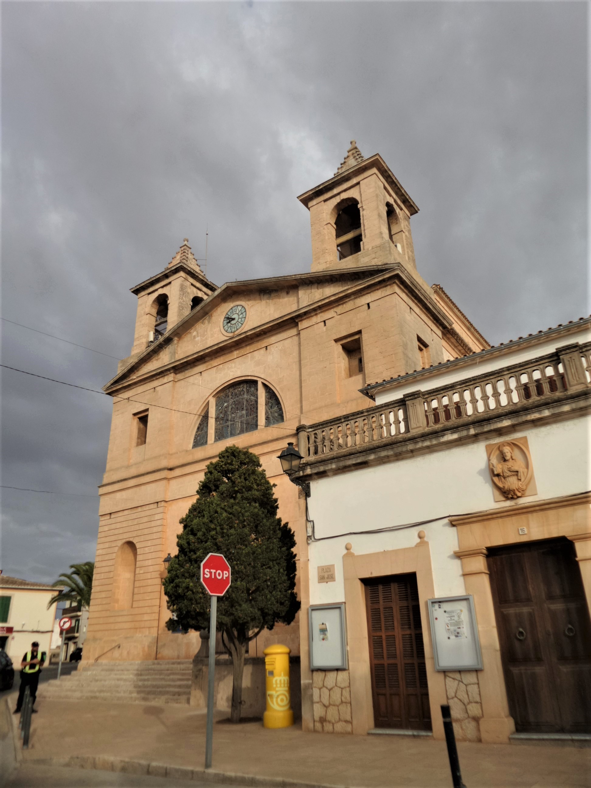 Church of S'Alqueria Blanca